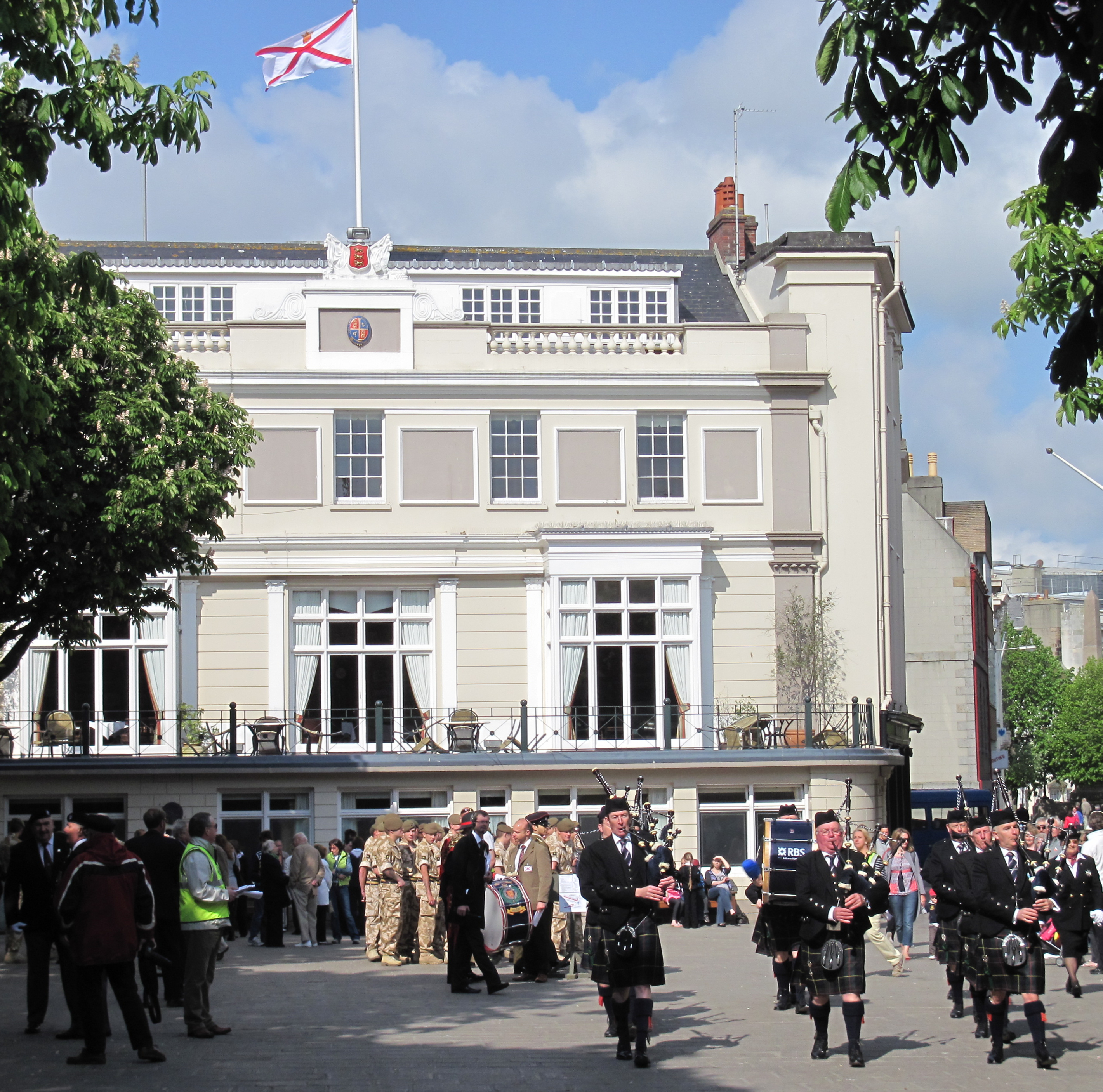 Liberation Day, 9 May 2010, Jersey